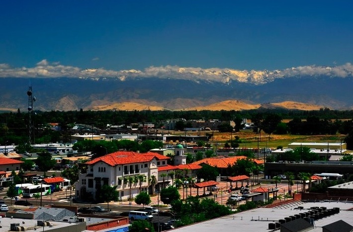 Looking east from Bank of Sierra